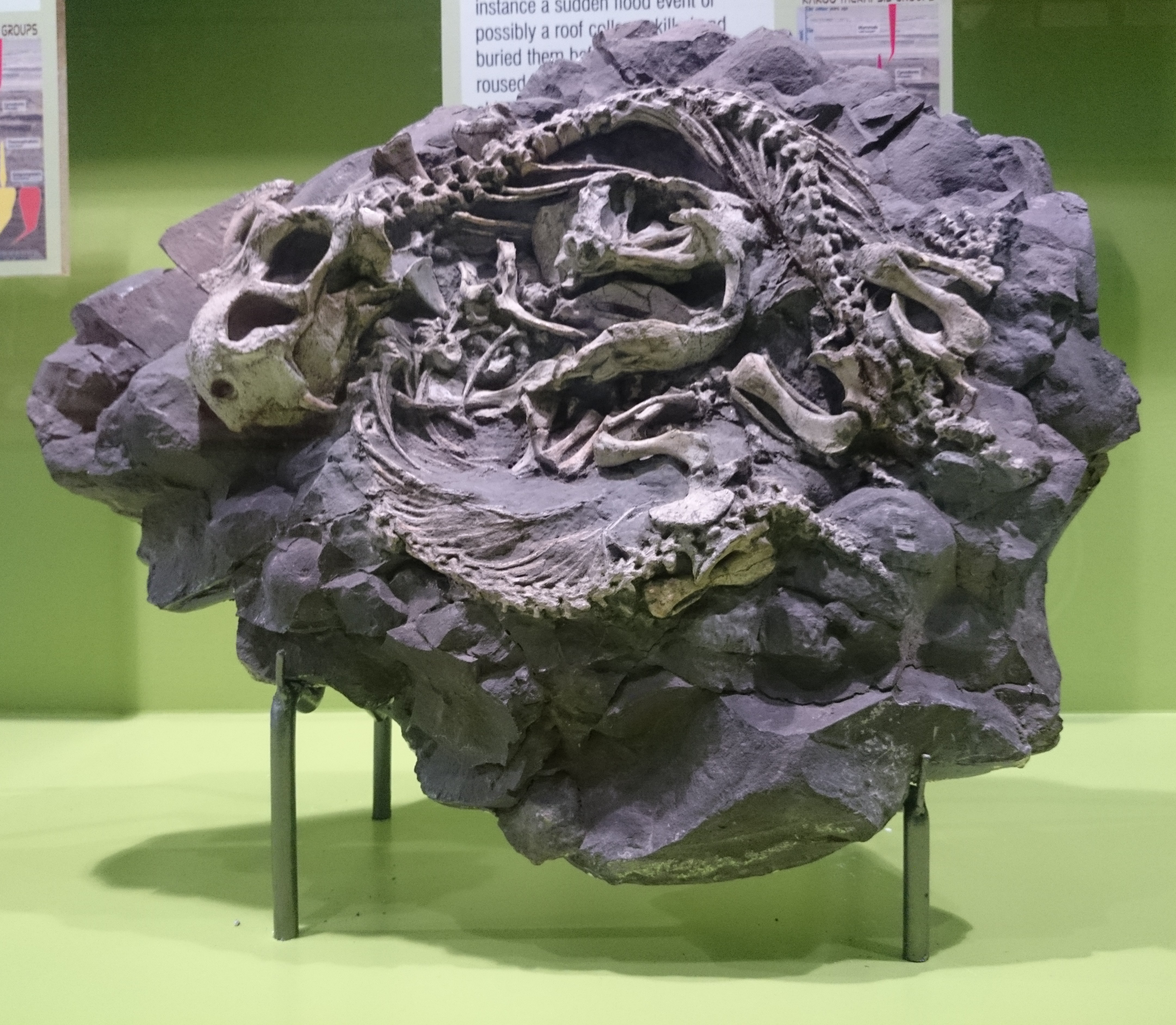 Fossilized skeletons of two adult male Diictodon that crawled into an underground burrow and curled-up together probably to conserve heat during winter hibernation. It has been proven that in this species only mature males grow tusks as a sexual signal. In this instance a sudden flood event or possible a roof collapse killed and buried them before they could be roused from their cold-induced slumber